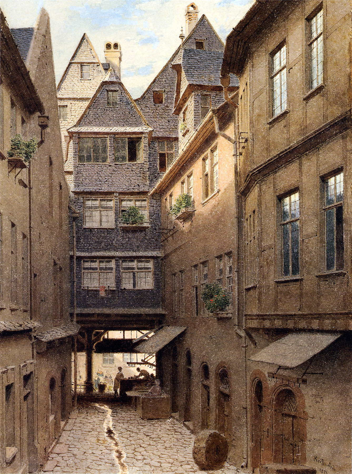 Frankfurt on the Main: Tuchgaden; view from the Bendergasse (Coopers Lane) to the north facing the Markt (Market)